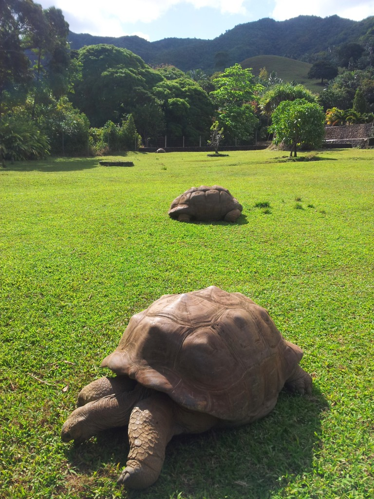 Aldabra tortoises at Vallee Ferney